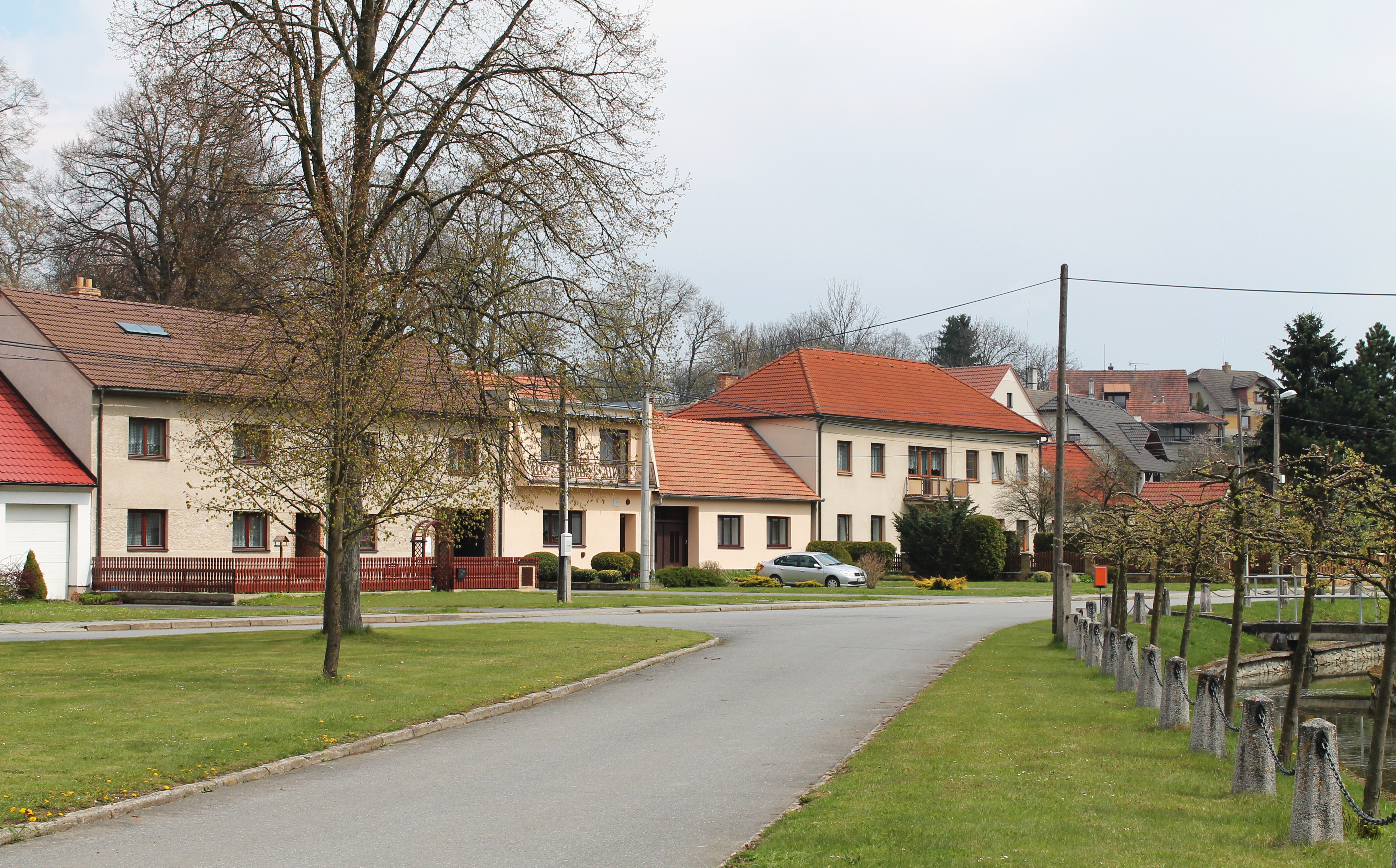 Crhov, Blansko District, Czech Republic This photograph was taken during a group photography field trip by Brno Wikipedians: 2017-04-29.